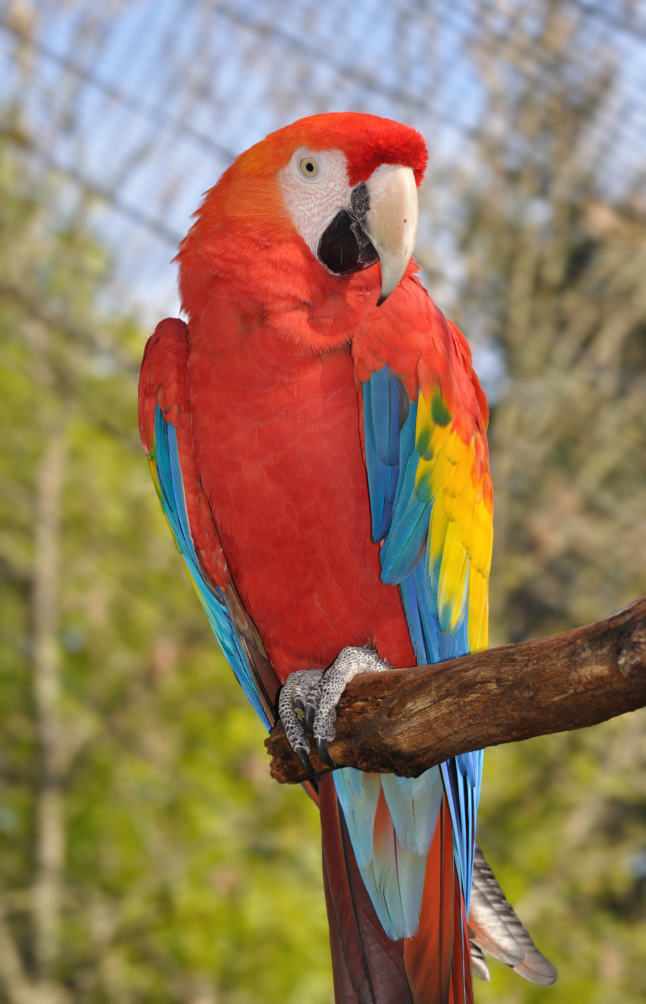 Scarlet Macaw (Ara macao) in the Vogelburg (bird park) Hochtaunus, Weilrod, Germany.